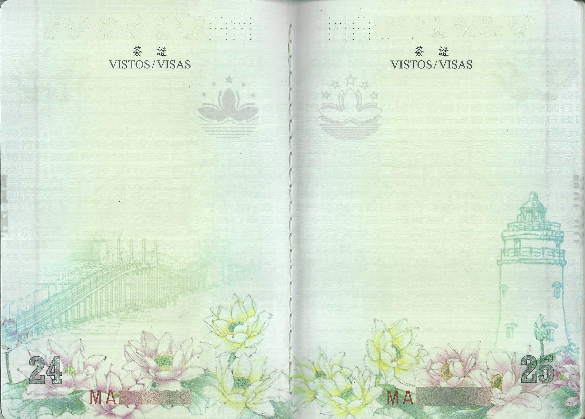 The visa pages (pages 24 and 25) of a Macao Special Administrative Region ePassport. Page 24 shows Ponte de Amizade(Macau friendship bridge) and page 25 the Guia Fortress.